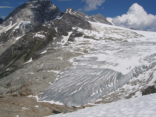 Illecillewaet Glacier in the Glacier National Park at the end off the Glacier Crest Trail